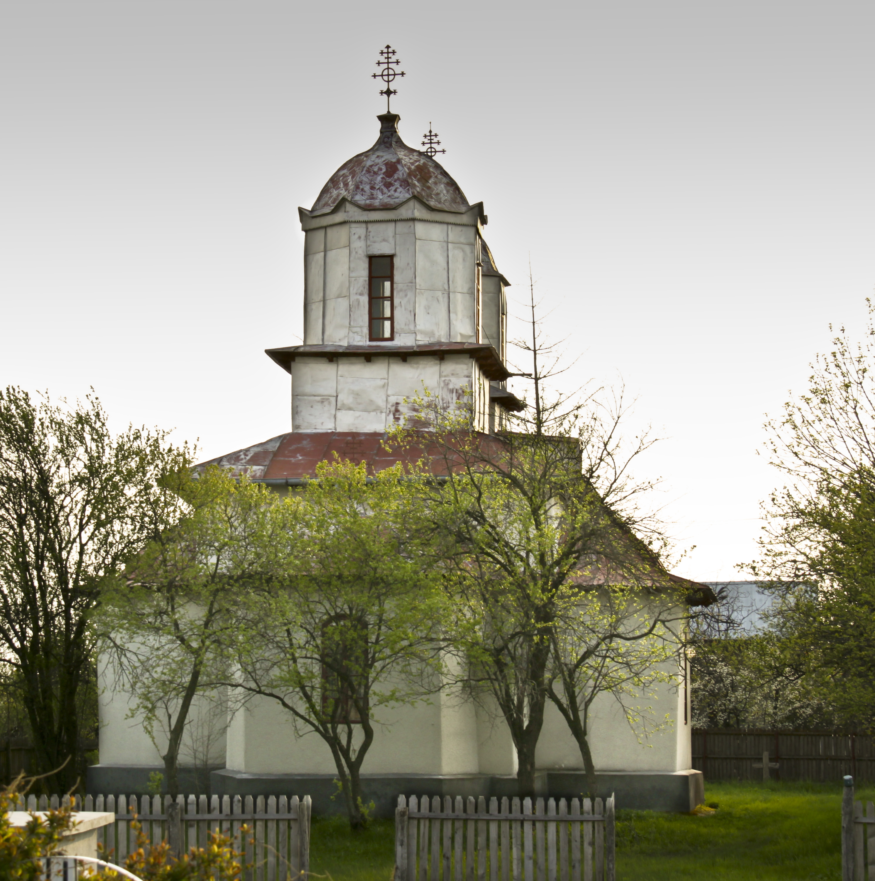 Optăşani, Olt county, Romania: the wooden church.